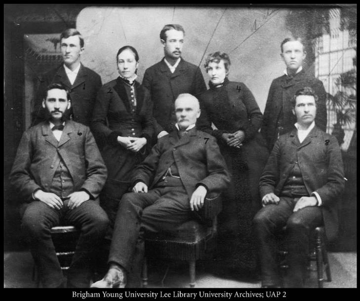 The faculty of BYU in 1884: left to right, seated: J. M. Tanner, Karl G. Maeser, Benjamin Cluff, Jr.; standing, N. L. Nelson, Zina Y. Card, J. M. Coombs, Nettie Southworth, Willard Done.